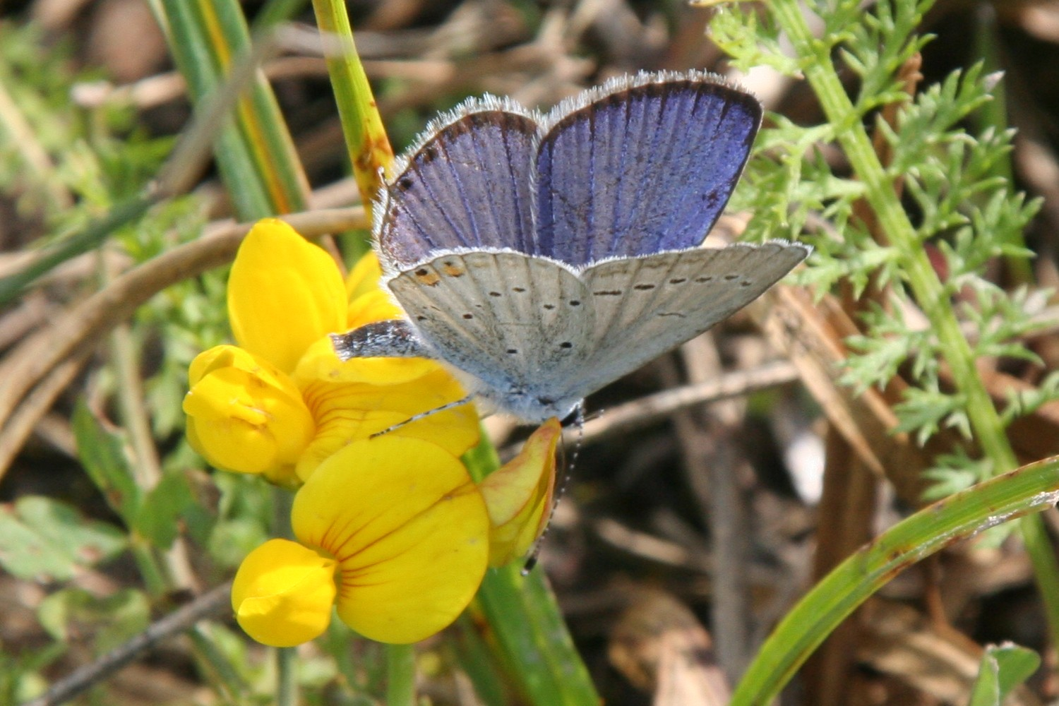 A male short-tailed blue butterfly (Cupido argiades), photographed in Weinsberg